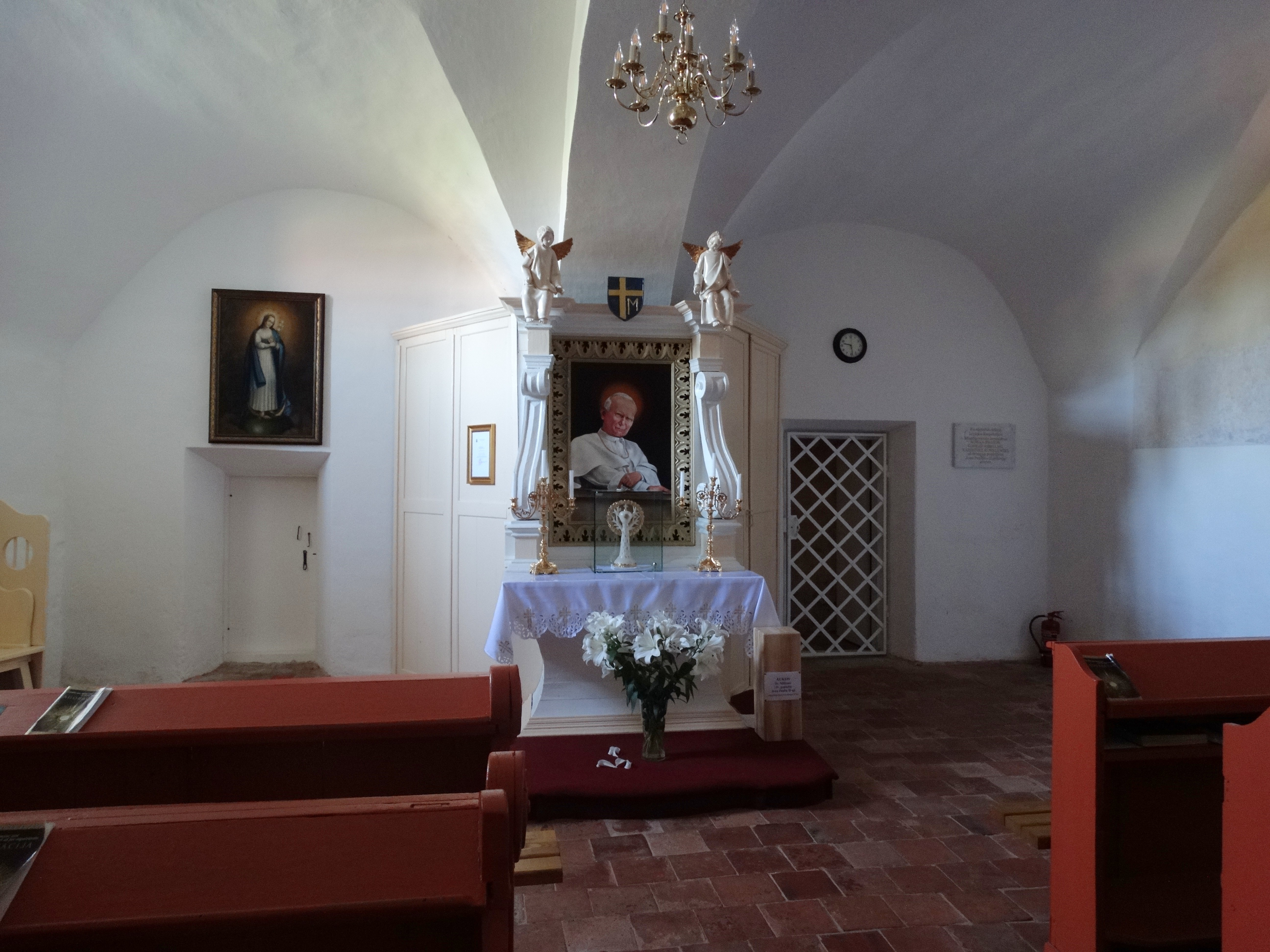 Tytuvėnai church, Pope John Paul II chapel, Kelmė district, Lithuania